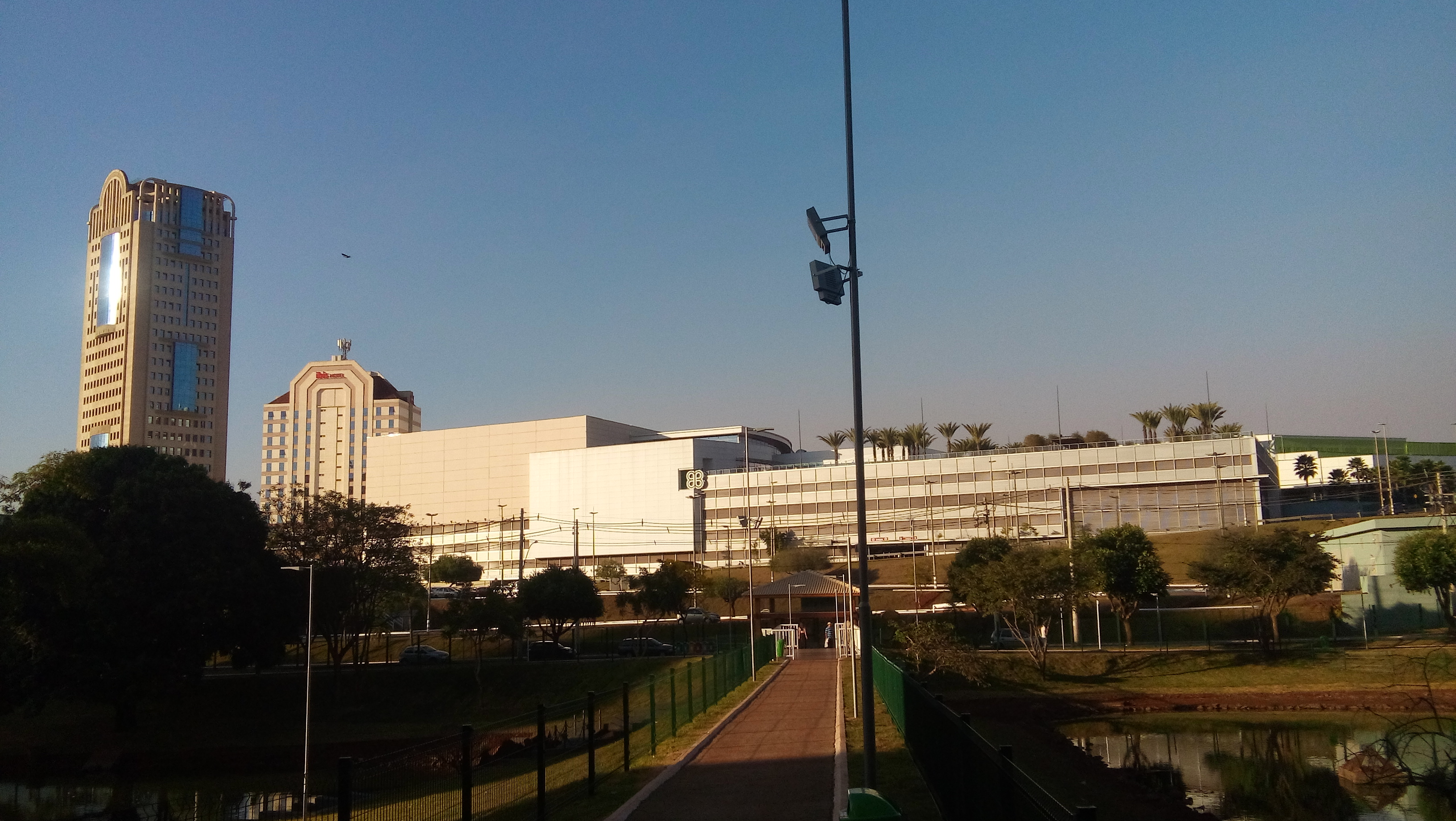 Ribeirao Shopping - View of the Arts Park